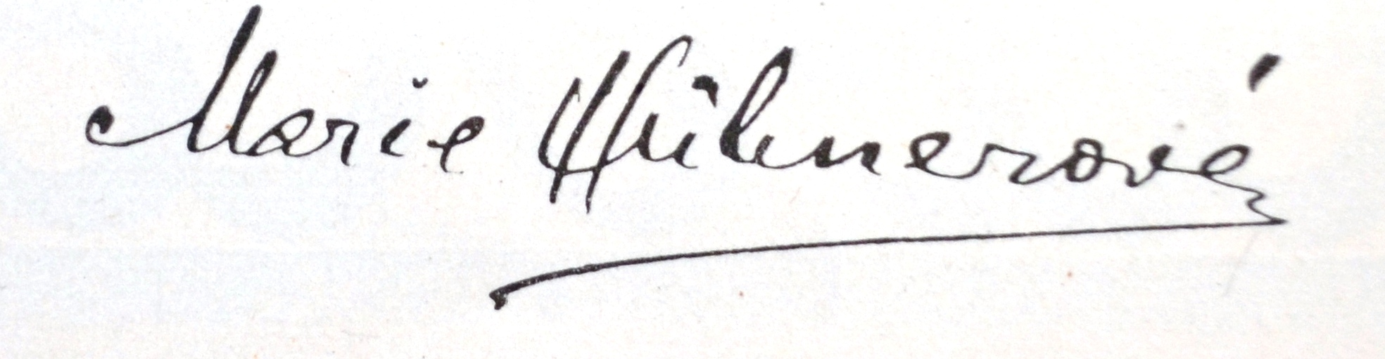 Autograph of Marie Hübnerová, Czech actress